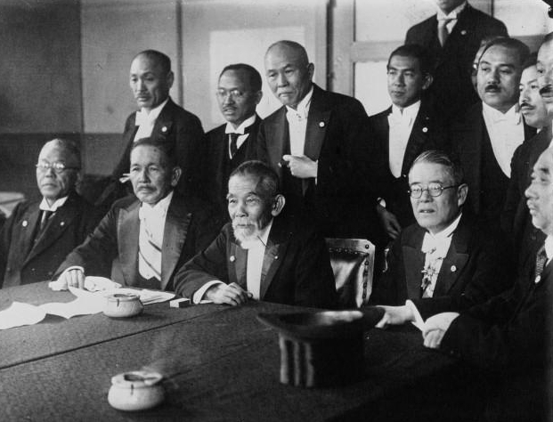 Japanese Prime Minister Inukai Tsuyoshi (seated, centre) with members of his cabinet in 1931.